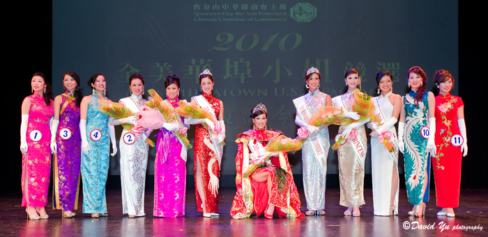 Miss Chinatown USA - Crystal Lee 李萬晴(San Francisco, CA) 1st princess/Miss Chinese Chamber of Commerce - Kristina Owyoung 歐陽坤怡(Lafayette, CA) Miss San Francisco - Christina Zhang 張子倩(Pleasanton, CA) 2nd princess - Li Li 李欣燃(Flushing, NY) 3rd princess - Anna Chiem 詹佩盈(Chicago, IL) [TVB Choice Award Winner] 4th princess - Angela Wang 王兆蓬(Sugar Land, TX) Miss Talent - Leilani Soon 孫愛蘭(Honolulu, HI) Crystal Lee 李萬晴 is 18 and stands 5'7" tall and is a freshman at Stanford University. Christine Lim 李汶娸, Kristina Owyoung 歐陽坤怡, Samantha Chin 陳冠曄, Leilani Soon 孫愛蘭, Anna Chiem 詹佩盈, Christina Zhang 張子倩, Crystal Lee 李萬晴, Gloria Mui 梅主恩, Angela Wang 王兆蓬,Chang Liu 劉暢,Li Li 李欣燃 ,Tong Qiao 喬彤 View On Black